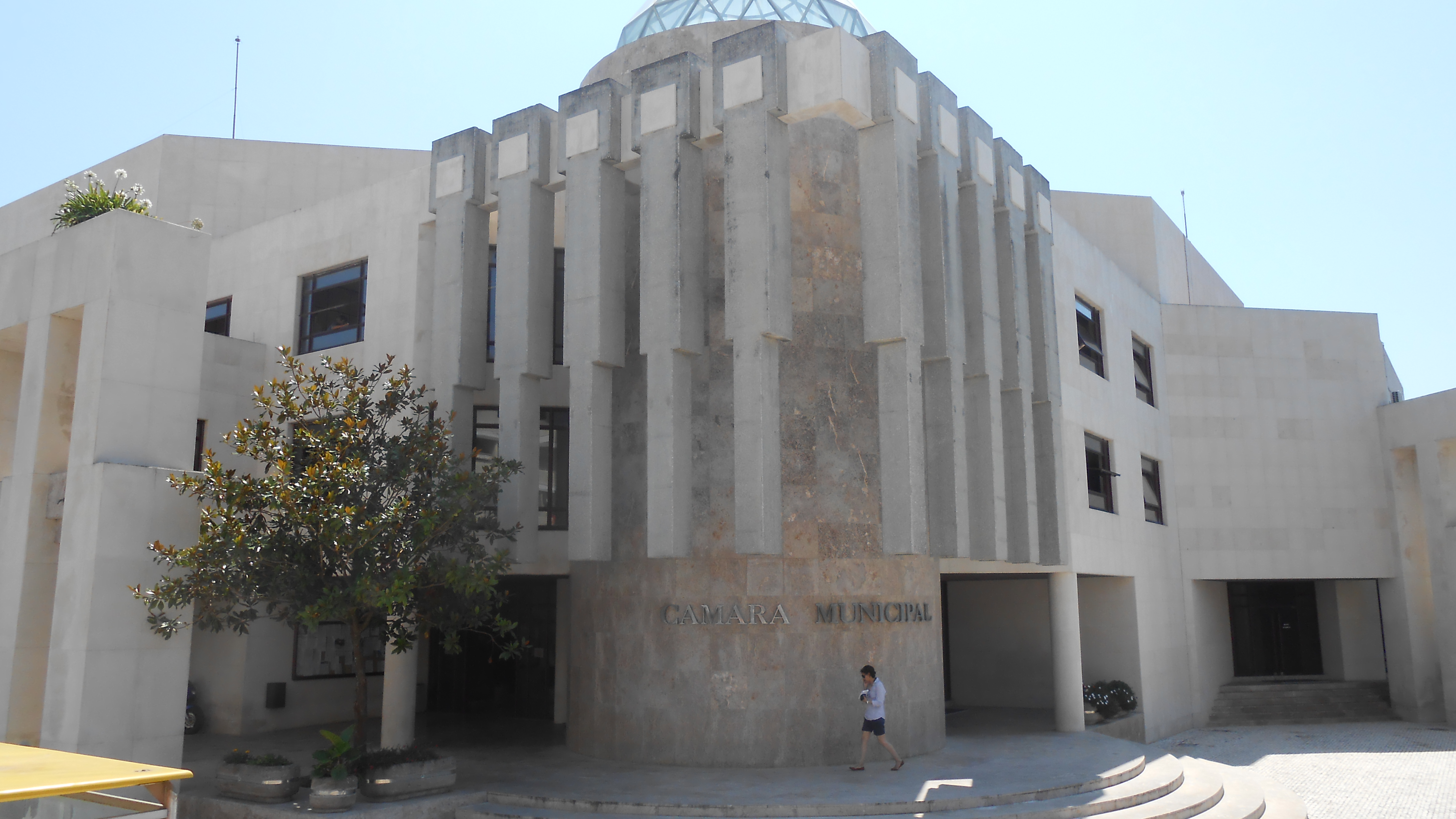 Ílhavo town hall, partial view